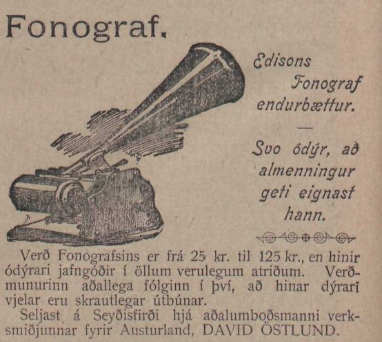 Advertisement for a fonograf in the Icelandic newsletter Bjarki in Seyðisfjörður, Iceland. The text: "So inexpensive that common people can have one. Price from 25 to 125 icelandic kronas. Kan be bought in Seyðisfjörður from David Östlund."